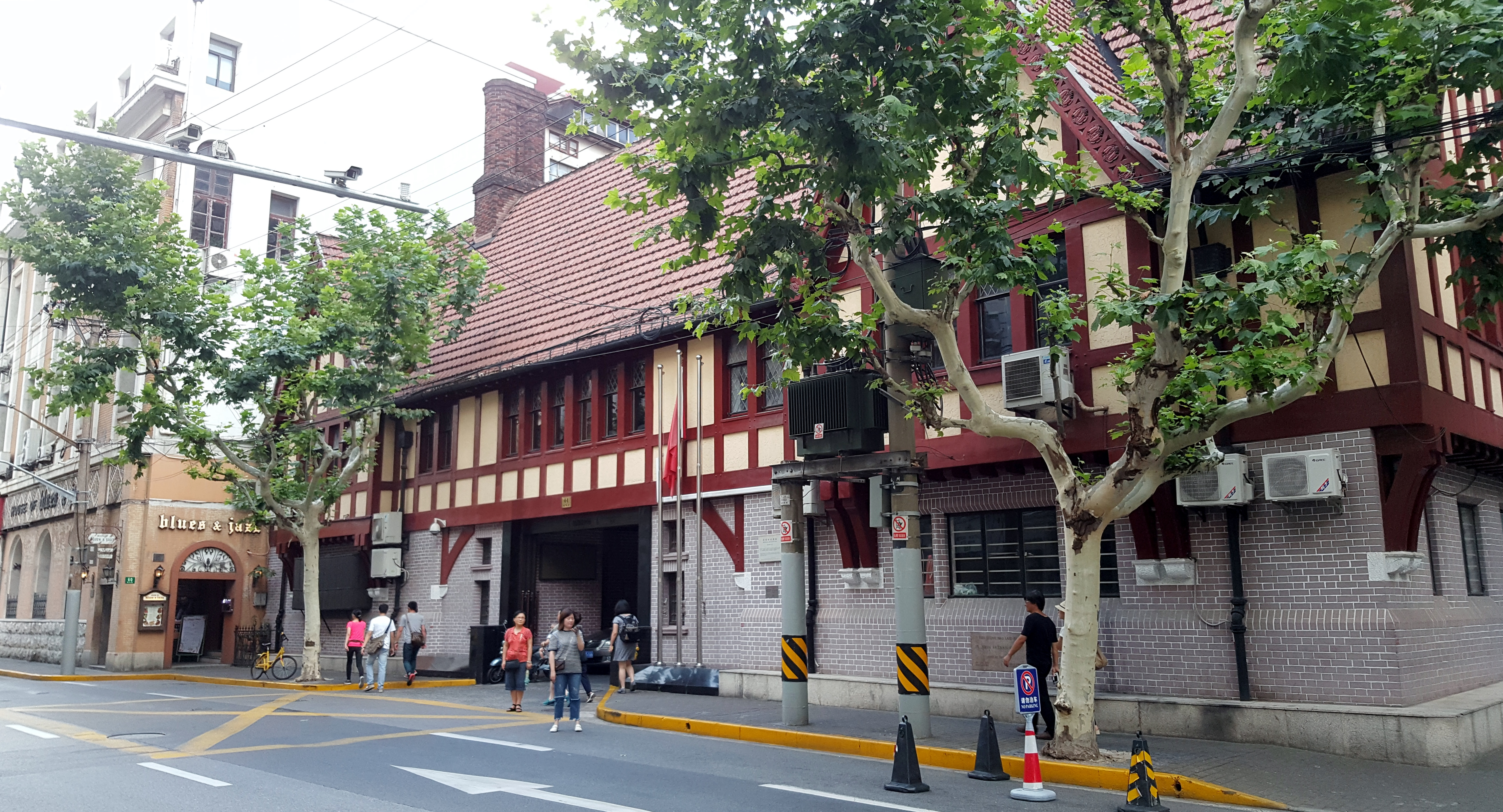 The Caldbeck McGregor & Co. building in Shanghai.